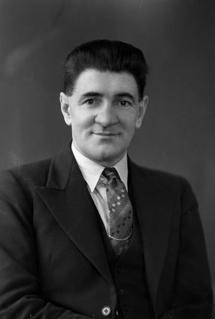 Photograph of John A. Lee taken in 1935